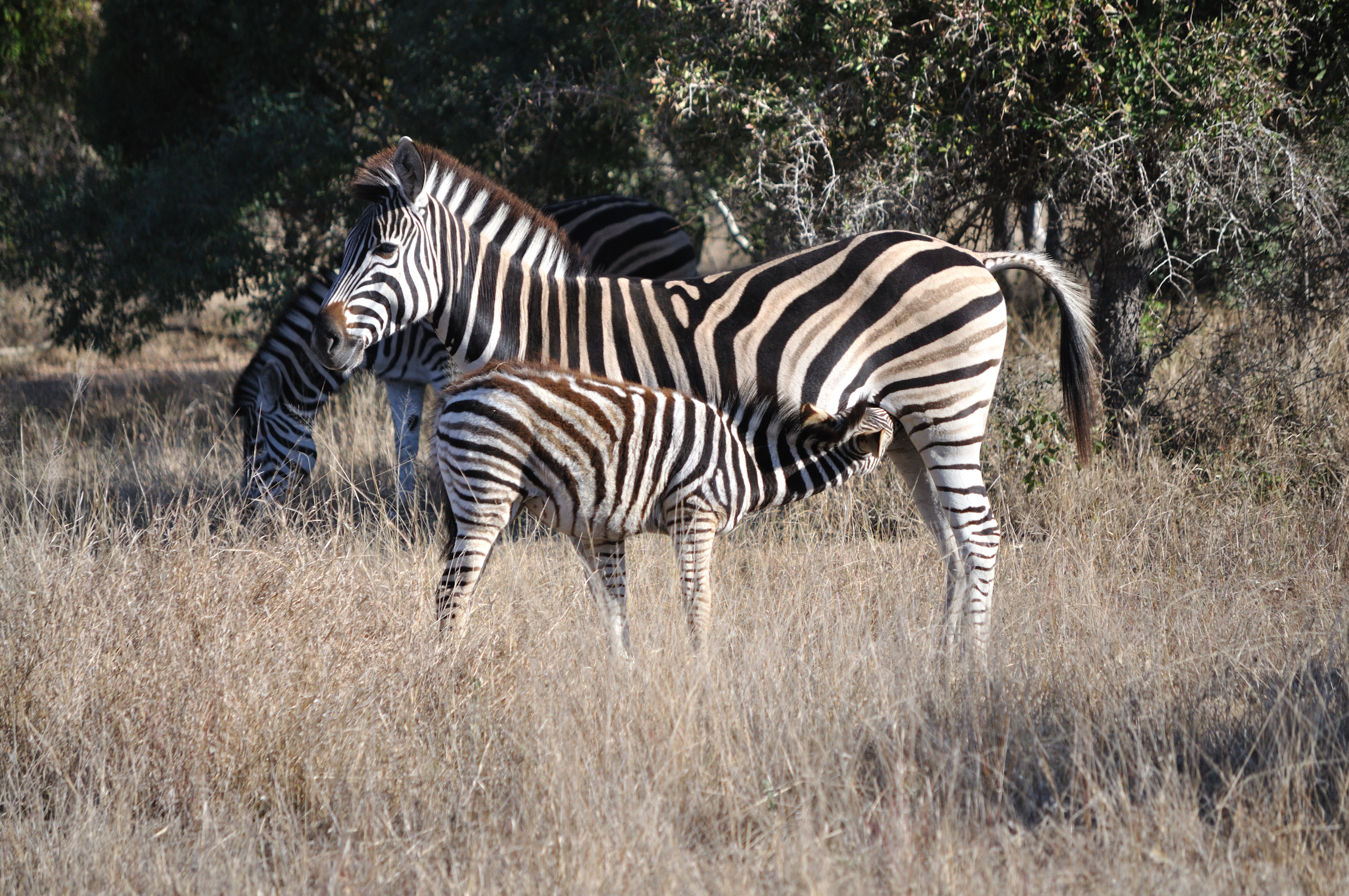 Young zebra nursing